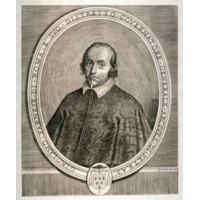 Portrait of Girolamo Cardinal Farnese, who was general-governor of Rome in mid-XVIIth century.